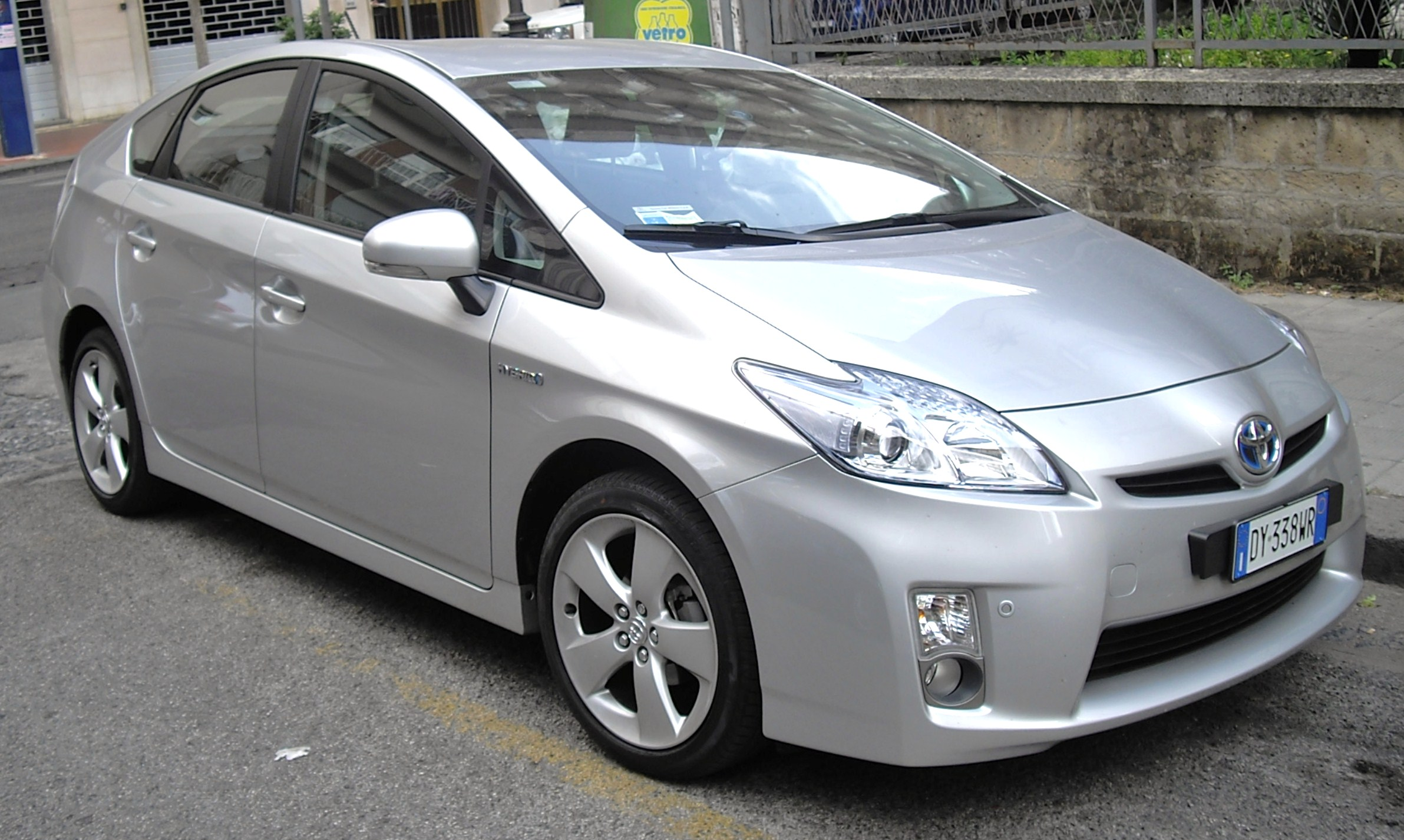 2010 Toyota Prius front